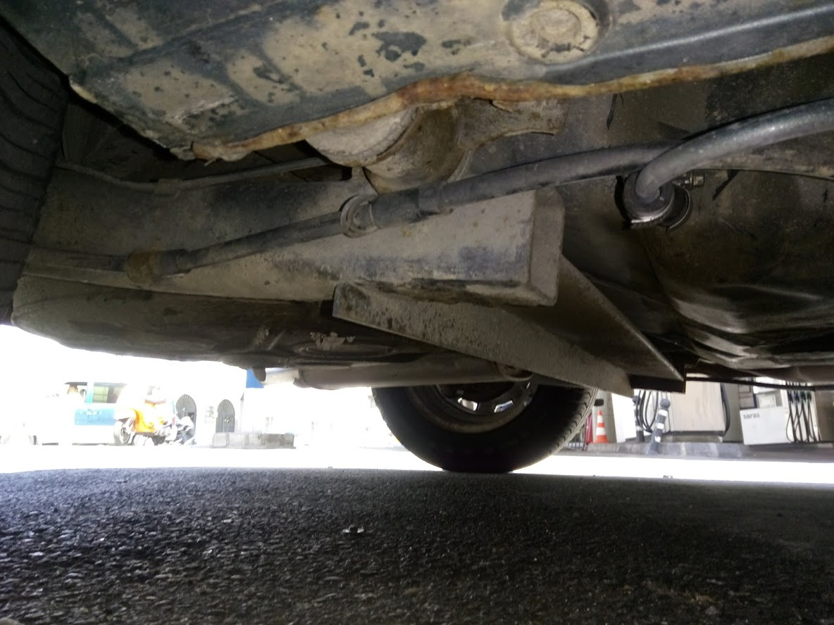 Front view of the rear axle of a Volkswagen Golf Mk1 from 1981. In this very first type of semi-independent twist beam suspension the location of the torsional axis is still located at the front end of the trailing arms pulled just on the pivot axis.